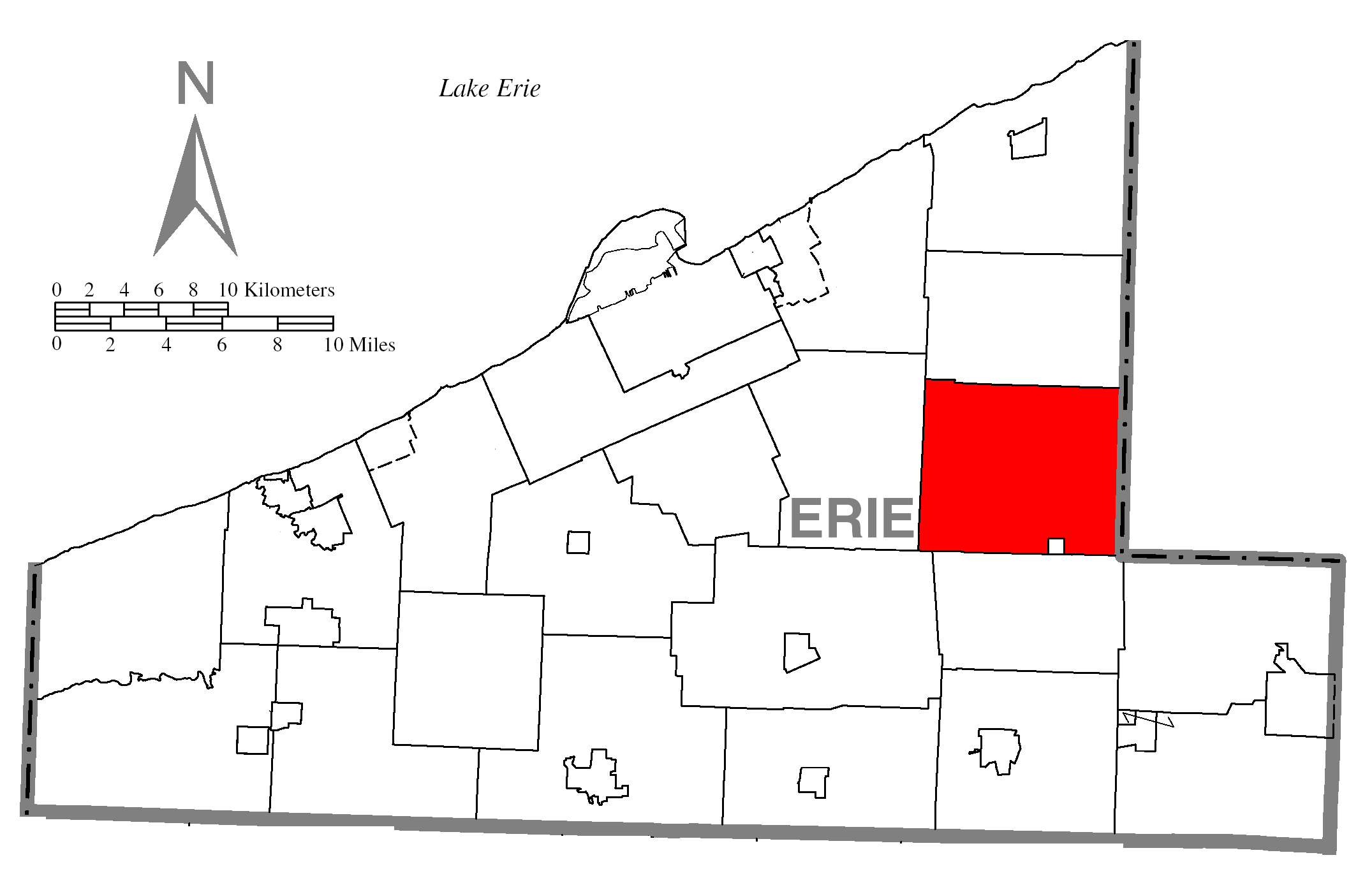 A map of Erie County showing Venango Township, Pennsylvania (alternate) highlighted on the map.